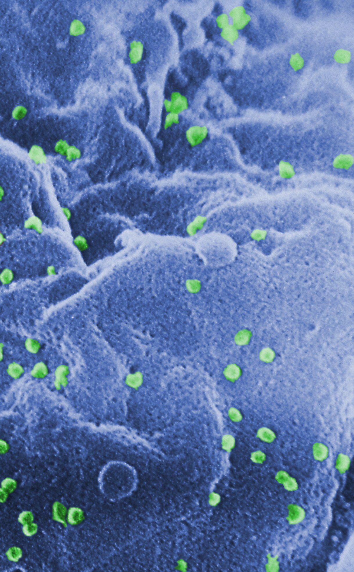 Scanning electron micrograph of HIV-1 budding from cultured lymphocyte. This image has been colored to highlight important features; see PHIL 1197 for original black and white view of this image. Multiple round bumps on cell surface represent sites of assembly and budding of virions.